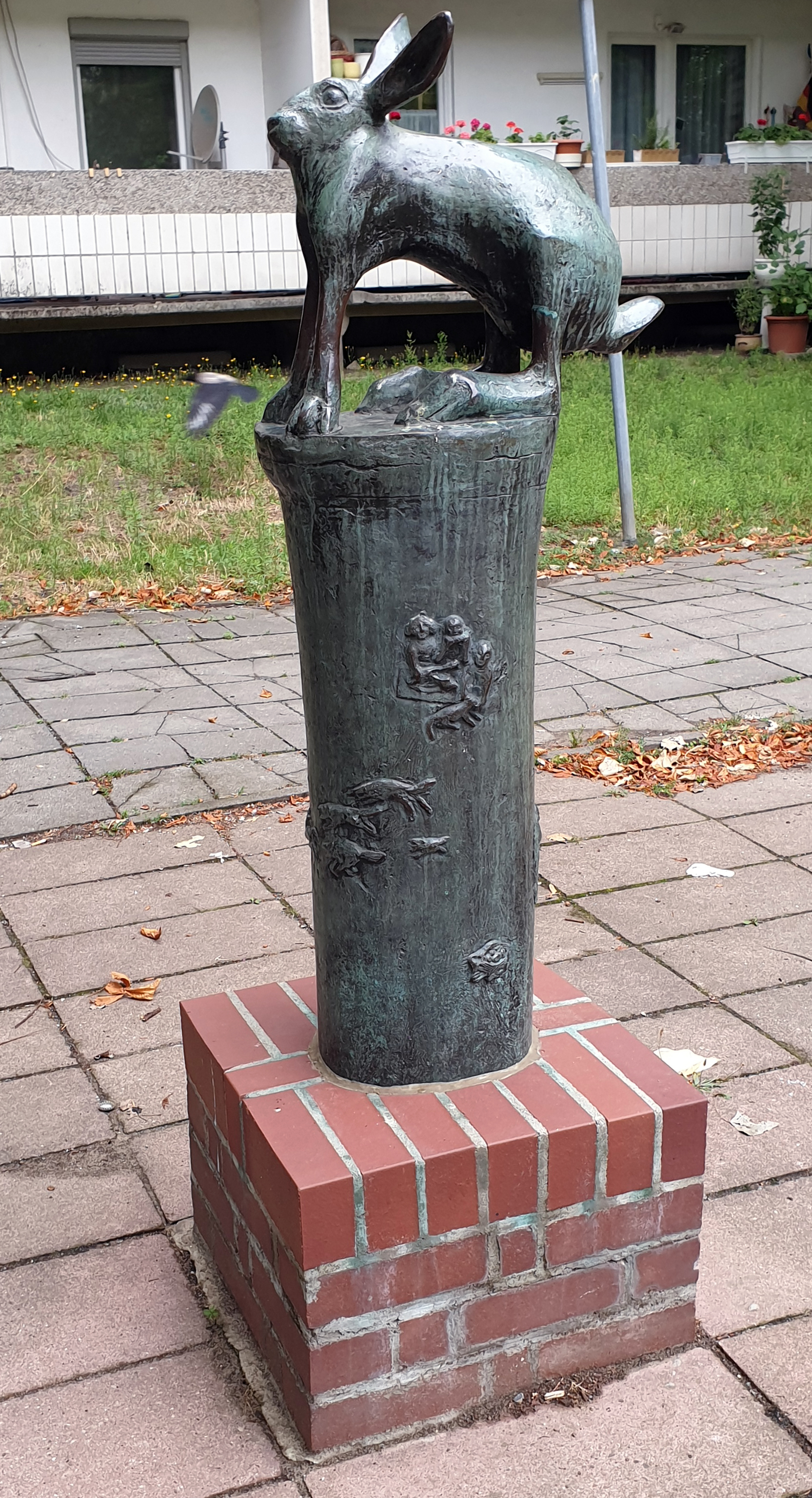 Sculpture, "'Hasensäule" by Peter Fritzsche, 1972, Berolinastraße 21, Berlin-Mitte, Germany